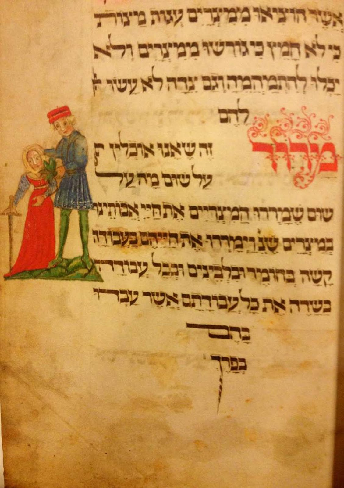 Illustration from the Washington Haggadah. There is a custom that a man points to his wife when mentioning marror based upon the verse EcclesiastesEcclesiastes 7:26 “Now I find woman more bitter than death.”